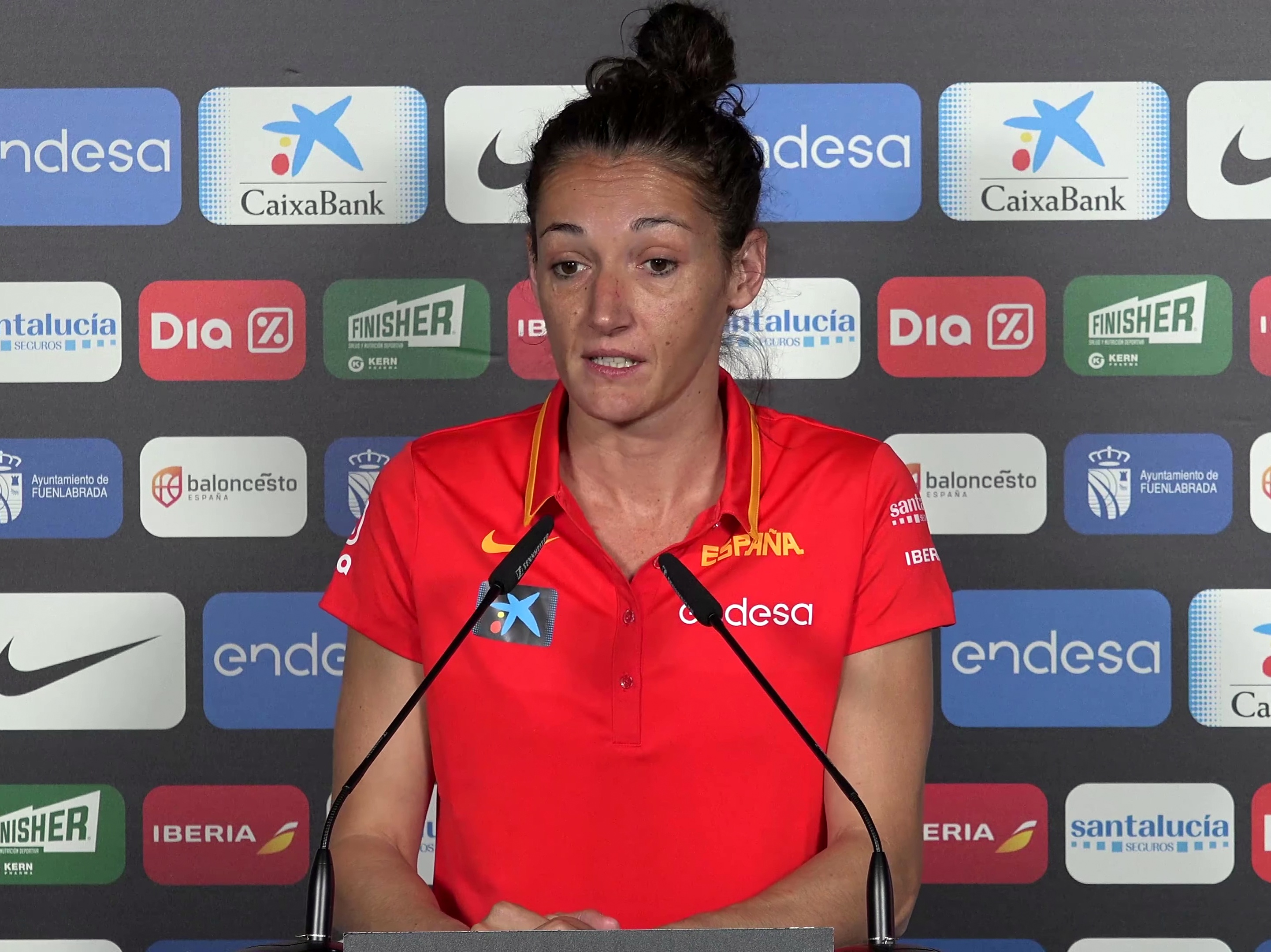 Las selecciones de baloncesto femenino de España, Gran Bretaña y Suecia en el Fernando Martín